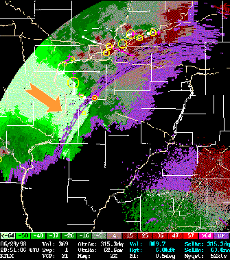 Radar velocity display showing band of derecho winds sweeping east-southeast across southeastern Iowa into far western Illinois at 3:51 p.m. CDT, June 29, 1998. The area of light green are velocities toward the radar (beneath orange arrow) and represents Doppler-estimated wind speeds in excess of 64 kts. White lines denote state and county borders.